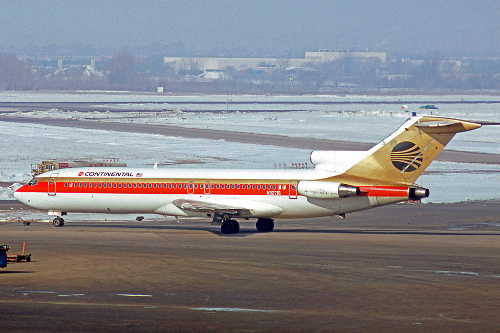 Boeing 727-224 N32718 of Continental Airlines at Chicago O'Hare airport in 1978